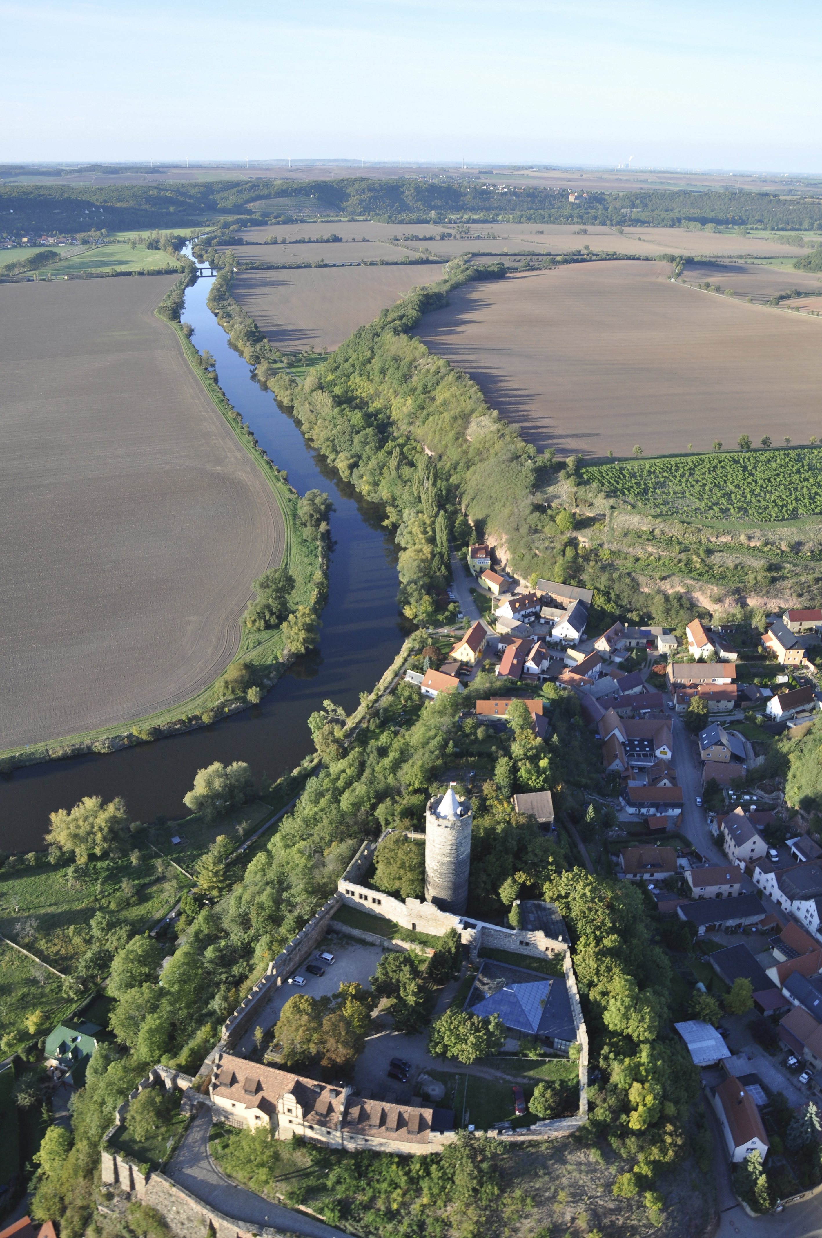 Schönburg Castle in Saxony-Anhalt, Germany